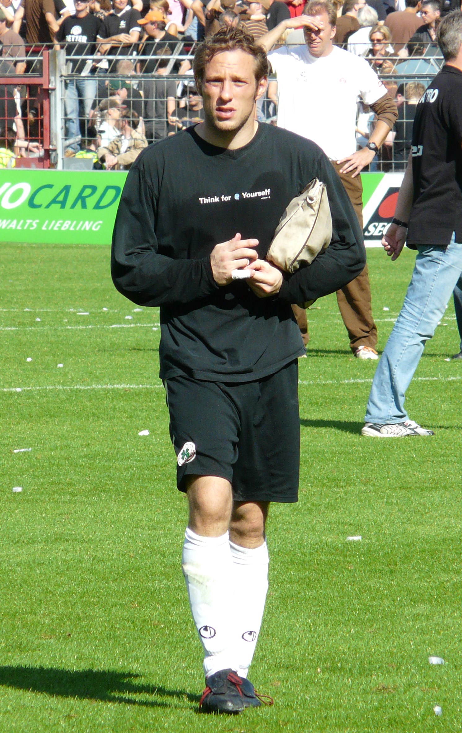 Christoph Semmler as Player from Rot-Weiß Oberhausen